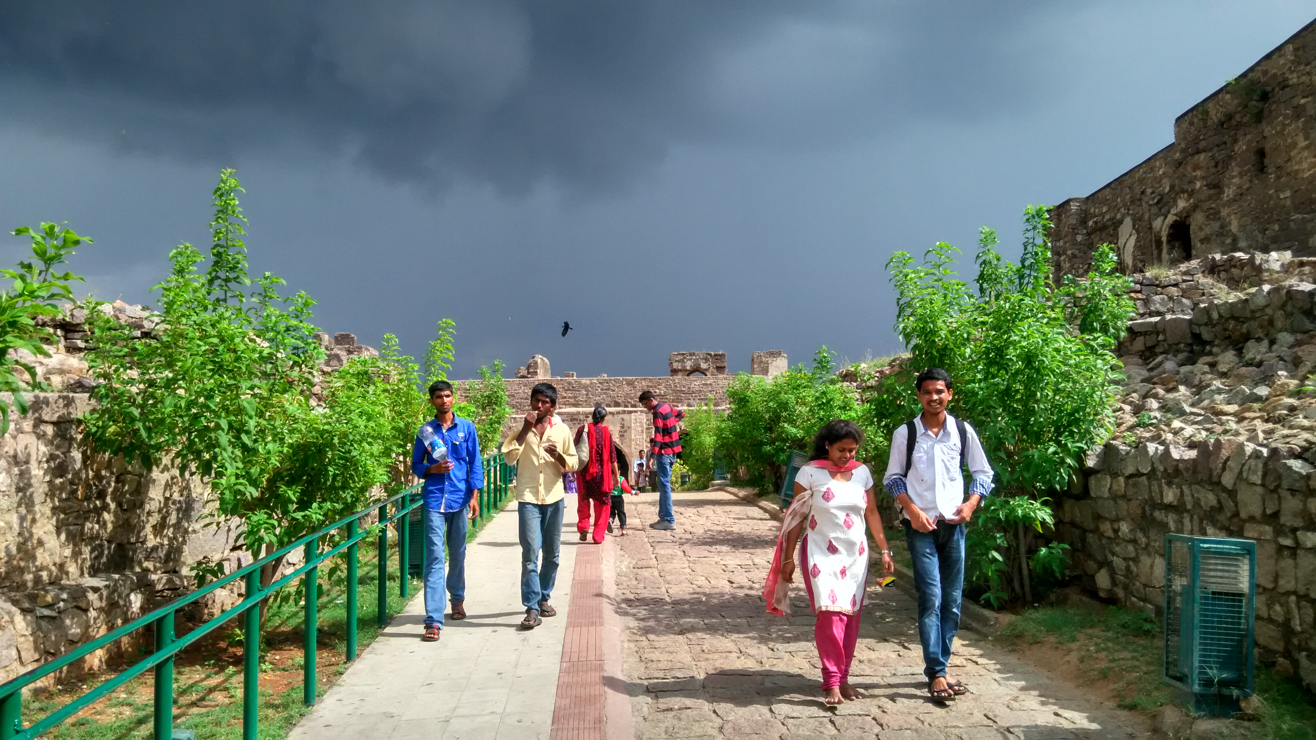 the streets in golconda fort